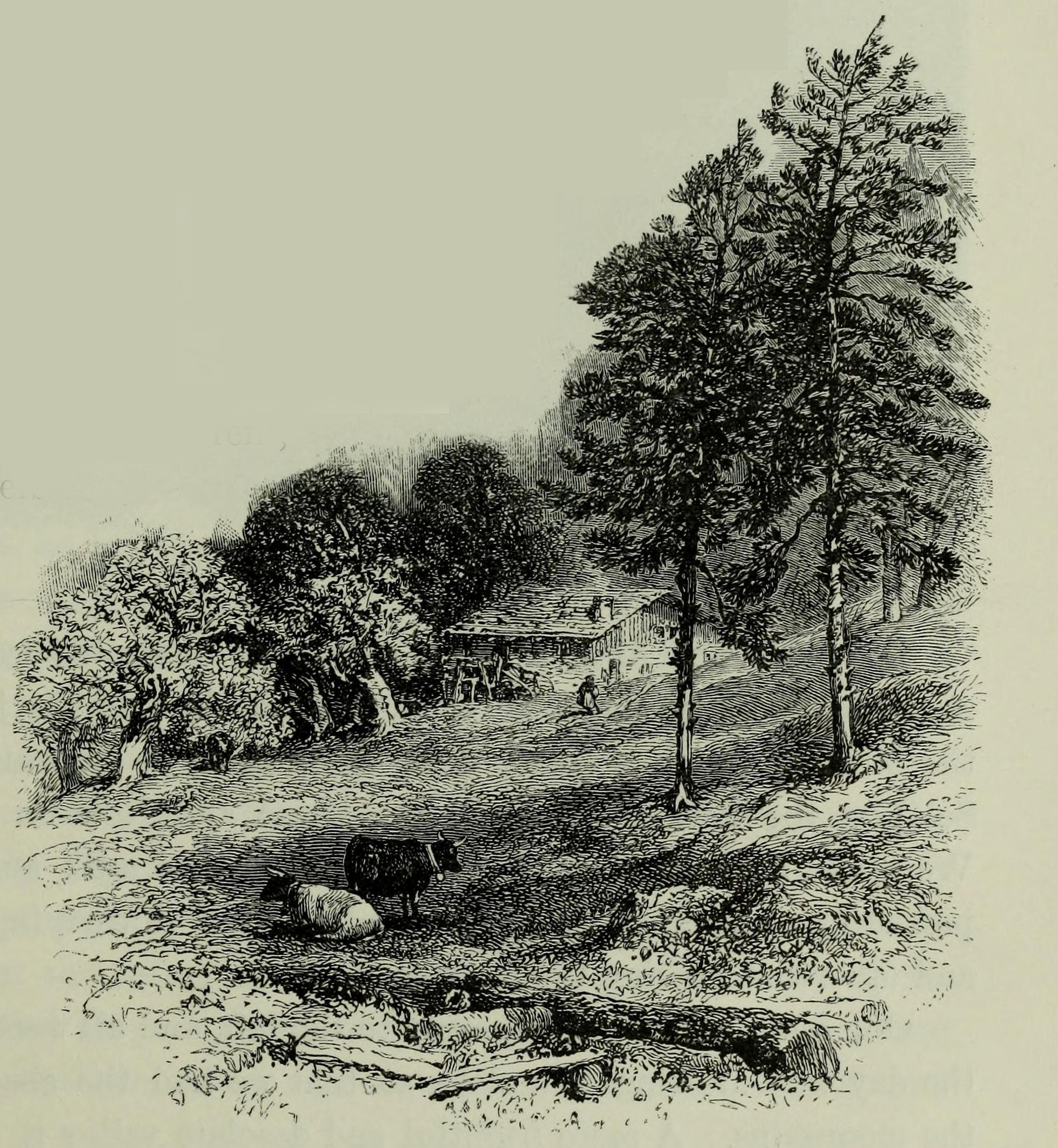 Image on page 49 of "Scrambles amongst the Alps" by Edward Whymper, showing the hameau of Ailefroide, named Alefred or Aléfroide in this book